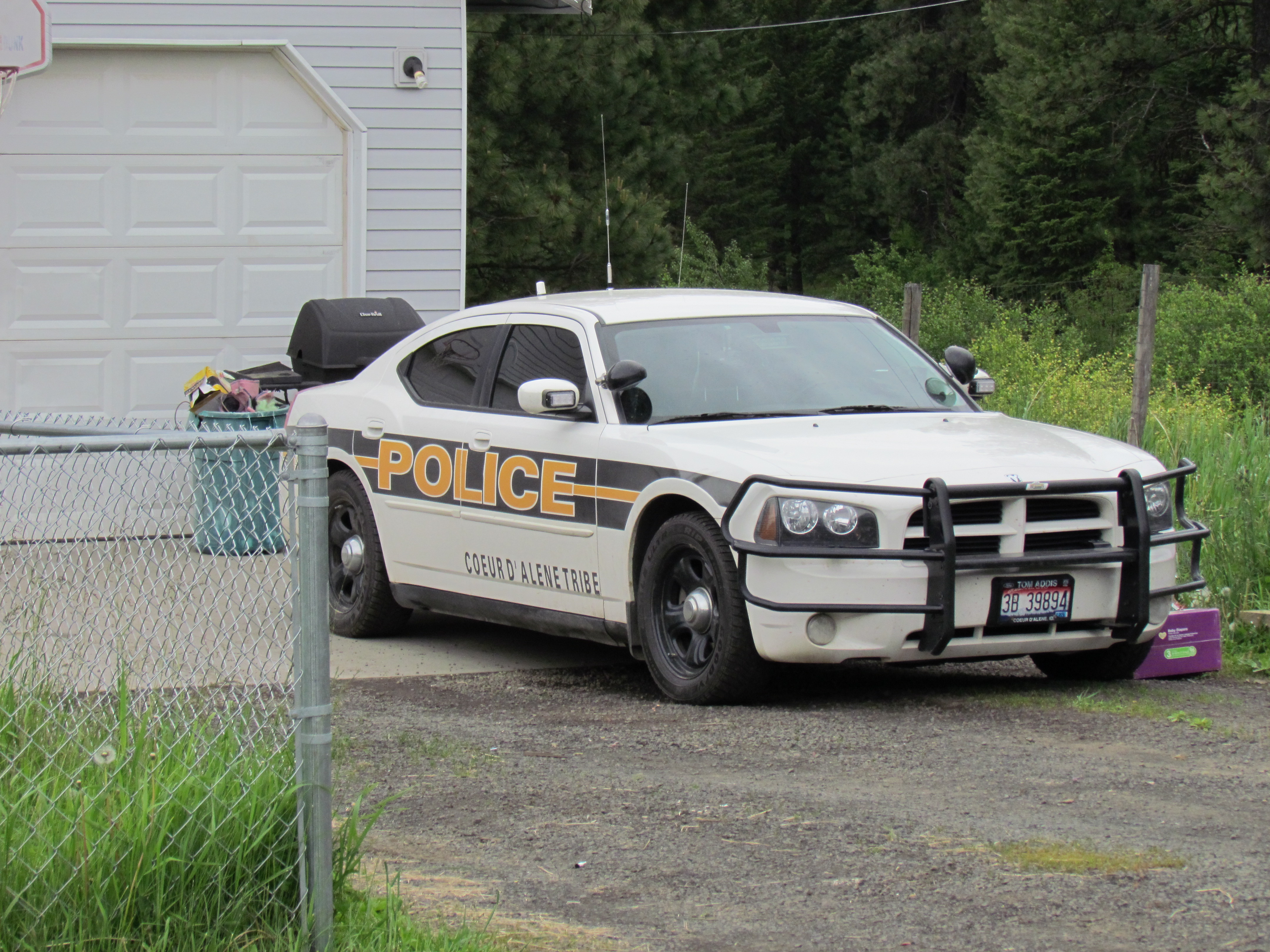 C.D'A Idaho police Plummer Idaho